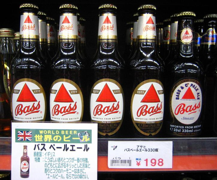 Bottles of Bass beer for sale at a liquor store in Fukushima City, Japan. Picture was taken with a Canon Power Shot SD450 Digital Elph camera and modified using a Paint Shop program on a laptop computer.